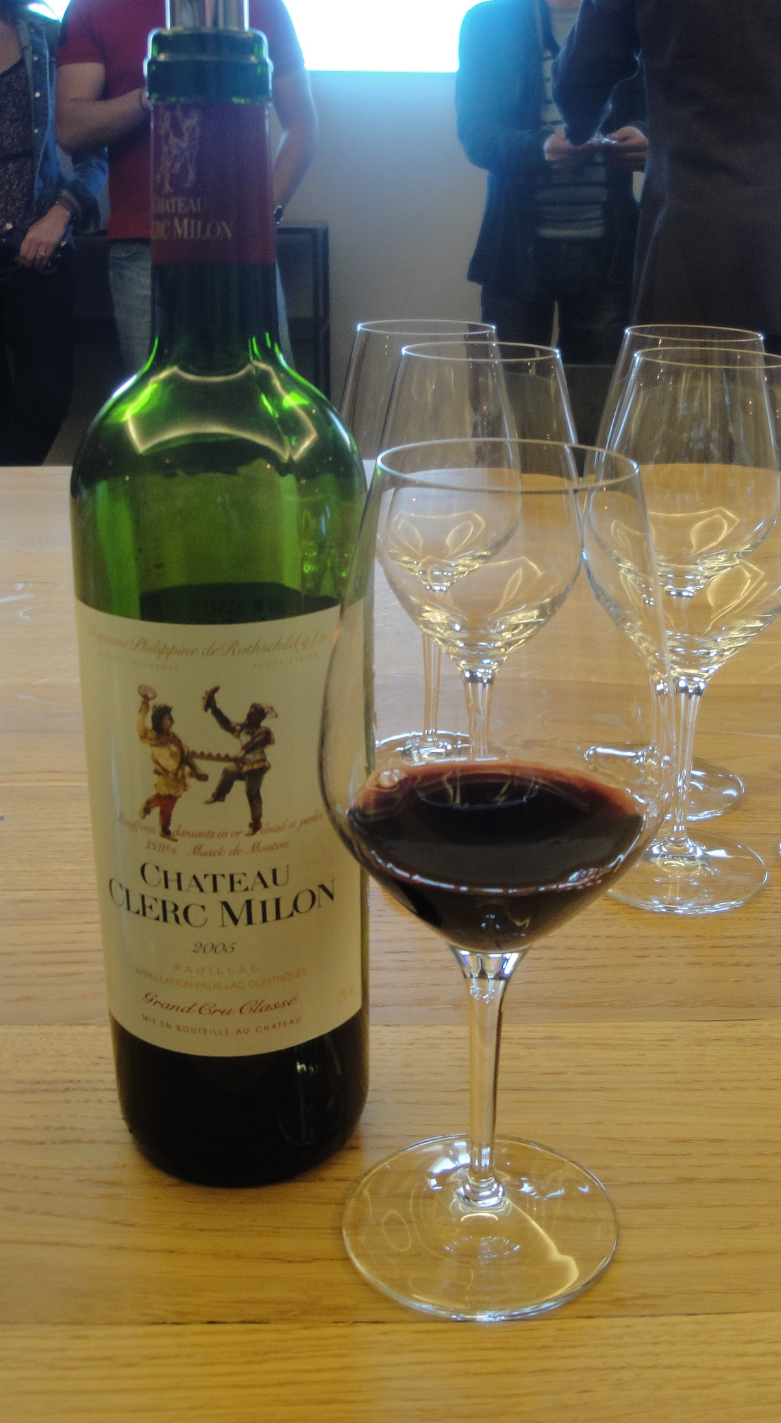 Châteu Clerc Milon 2005 in glass